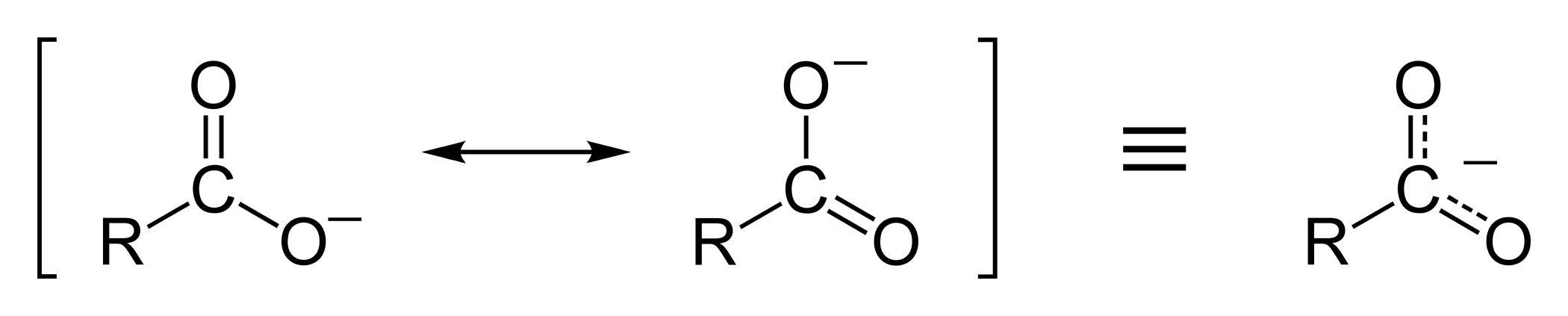 Structural description of the delocalisation of electrons in the pi system of a carboxylate anion. Structure drawn in ChemDraw Ultra 11.0.